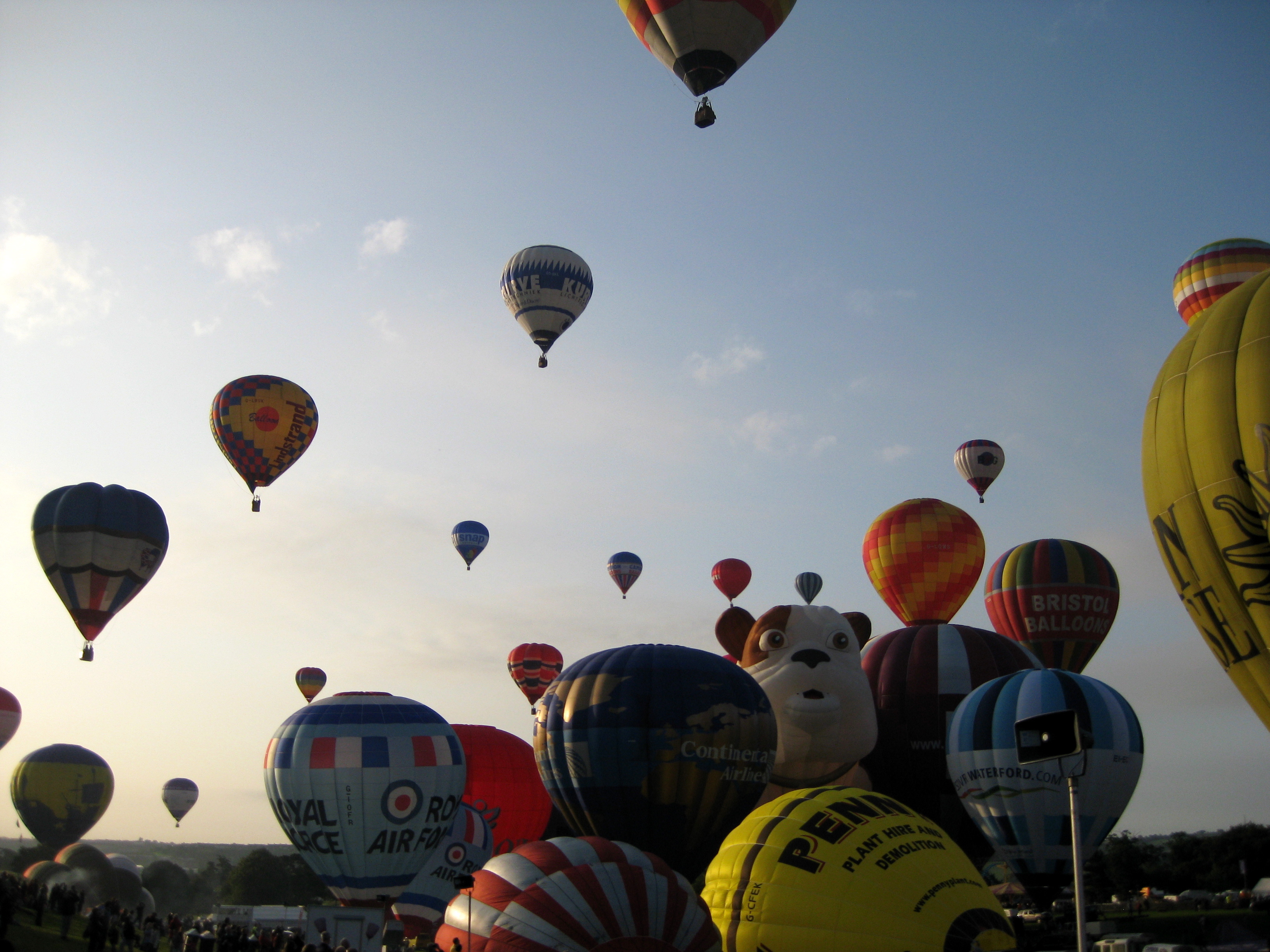 Bristol Balloon Fiesta, early morning ascent 2009.